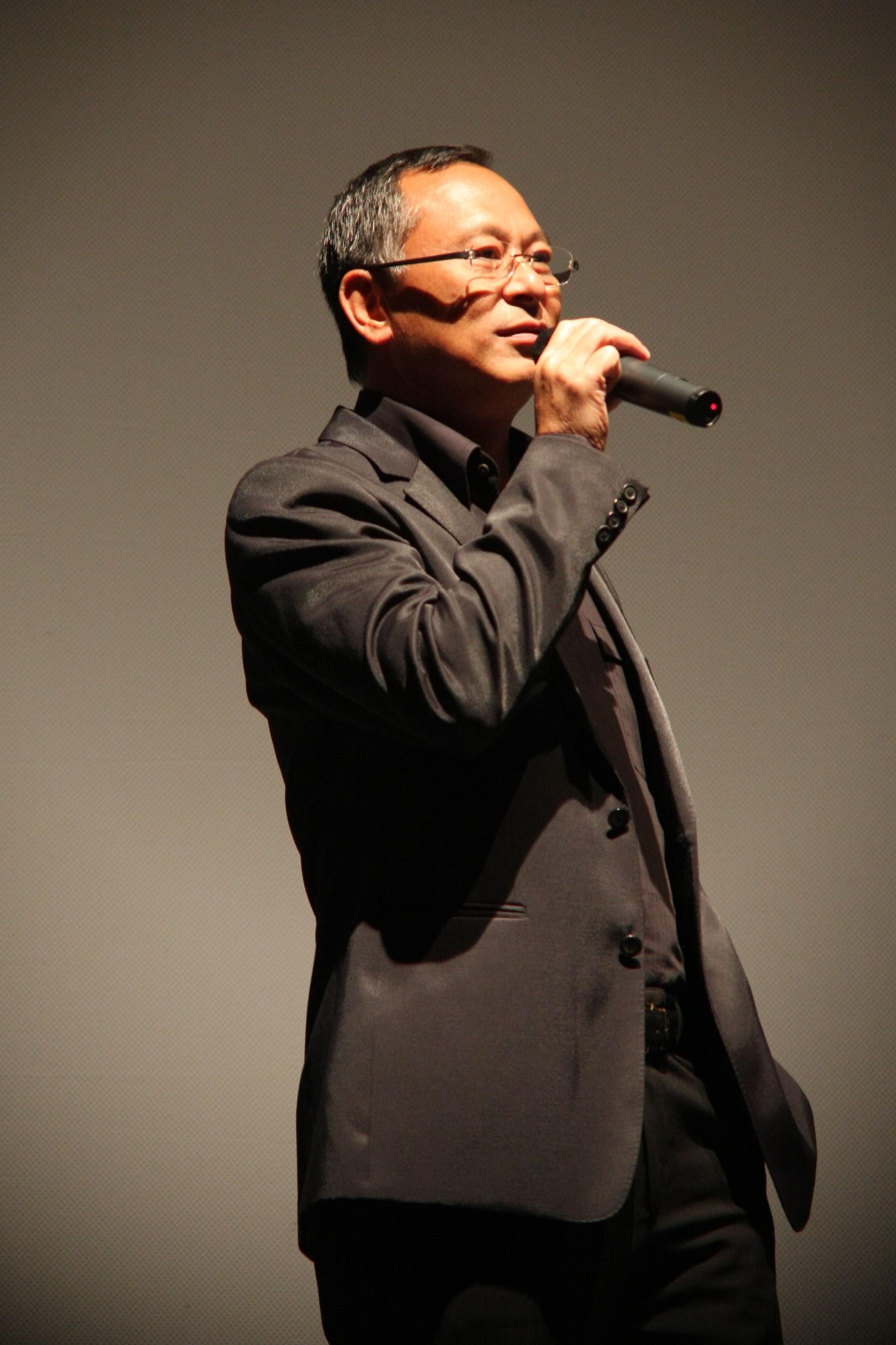 Director Johnnie To at the Q&A for Vengeance.